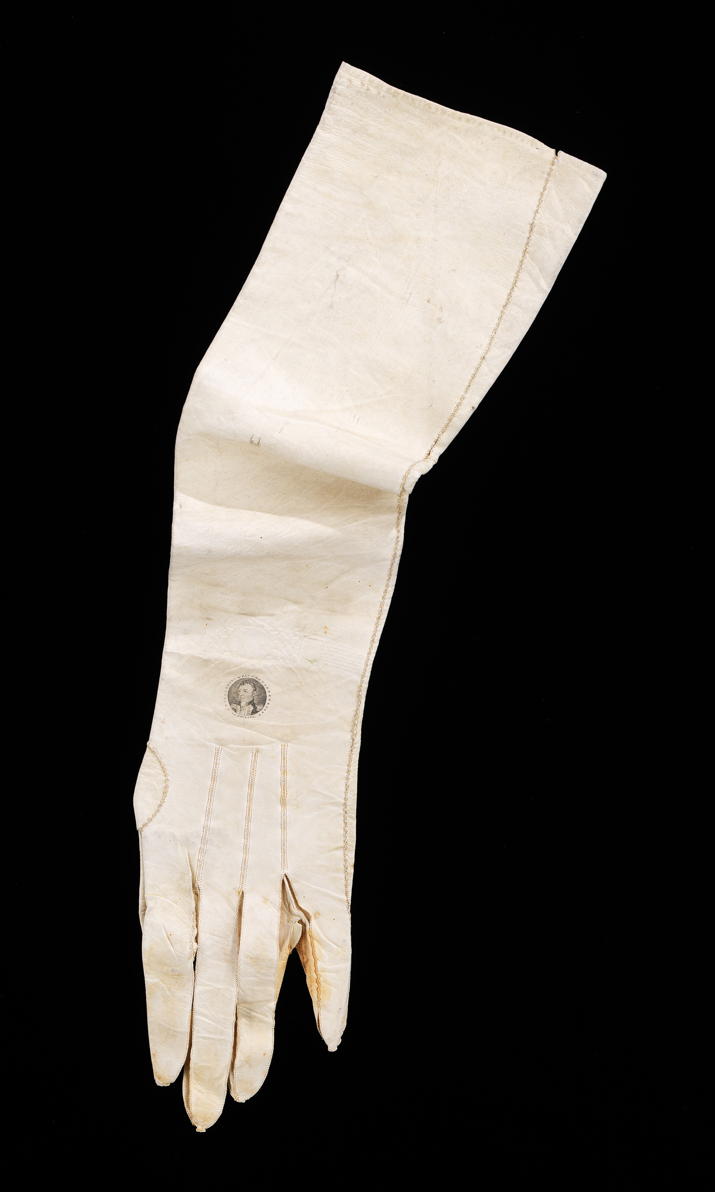 American; Gloves